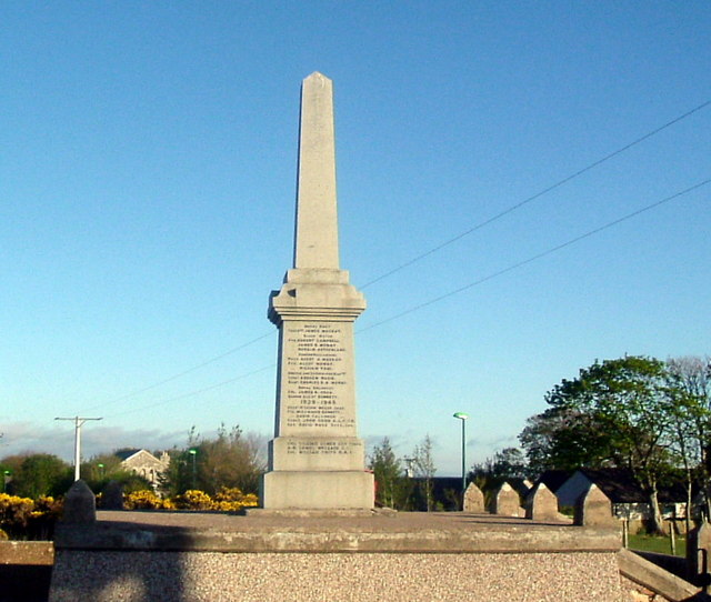 War memorial near Brabsterdorran, Scotland